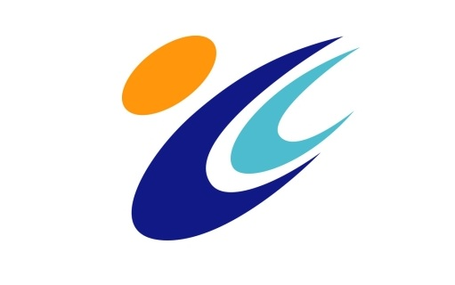 Flag of Tomi nagano